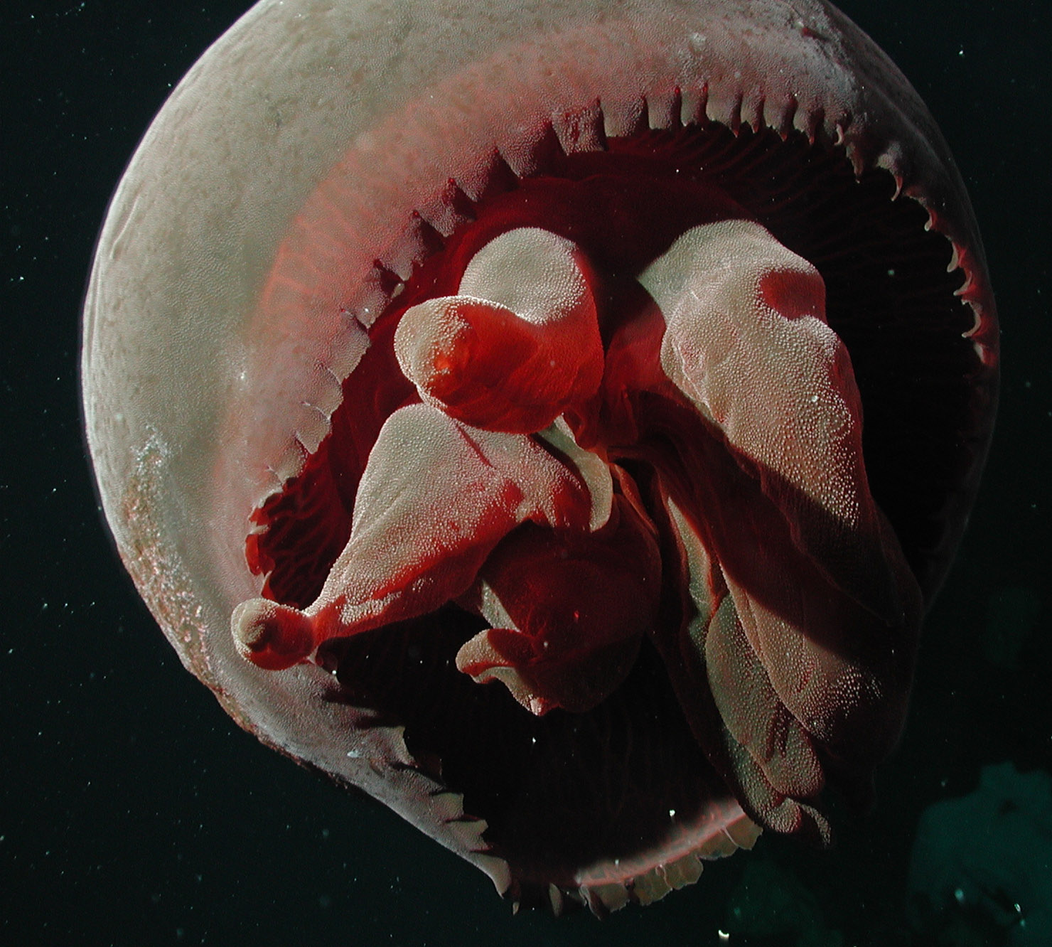 Caption: Jellyfish (Tiburonia granrojo) - a new species described by MBARI and JAMSTEC researchers. This species grows up to 1 meter in diameter. Image ID: expl0783, Voyage To Inner Space - Exploring the Seas With NOAA Collection Location: California, Davidson Seamount